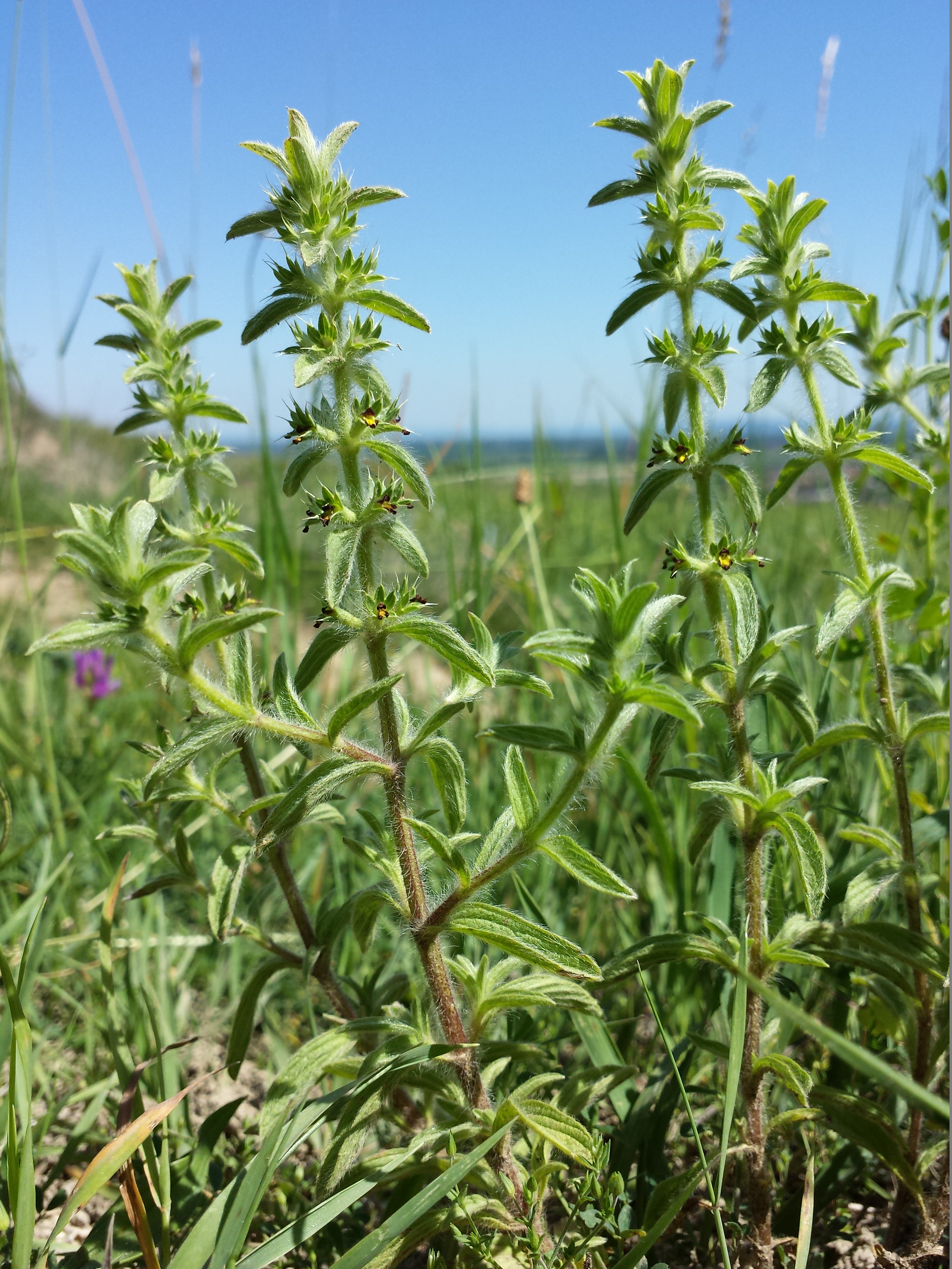 Habitus Taxon: Sideritis montana (sensu Fischer et al. EfÖLS 2008 ISBN 978-3-85474-187-9; det. M. A. Fischer 2014-06-07) Location: "Auf der Haid" nearby Gedersdorf, district Krems-Land, Lower Austria - ca. 260 m a.s.l. Habitat: wayside / Loess ground